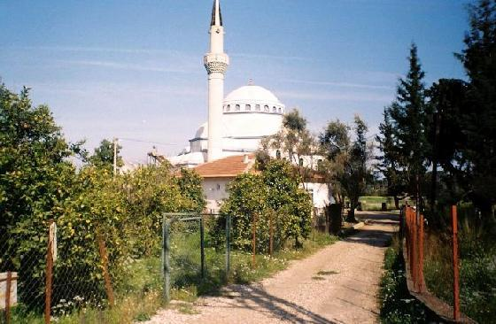 Mosque in the village of Çıralı, Turkey